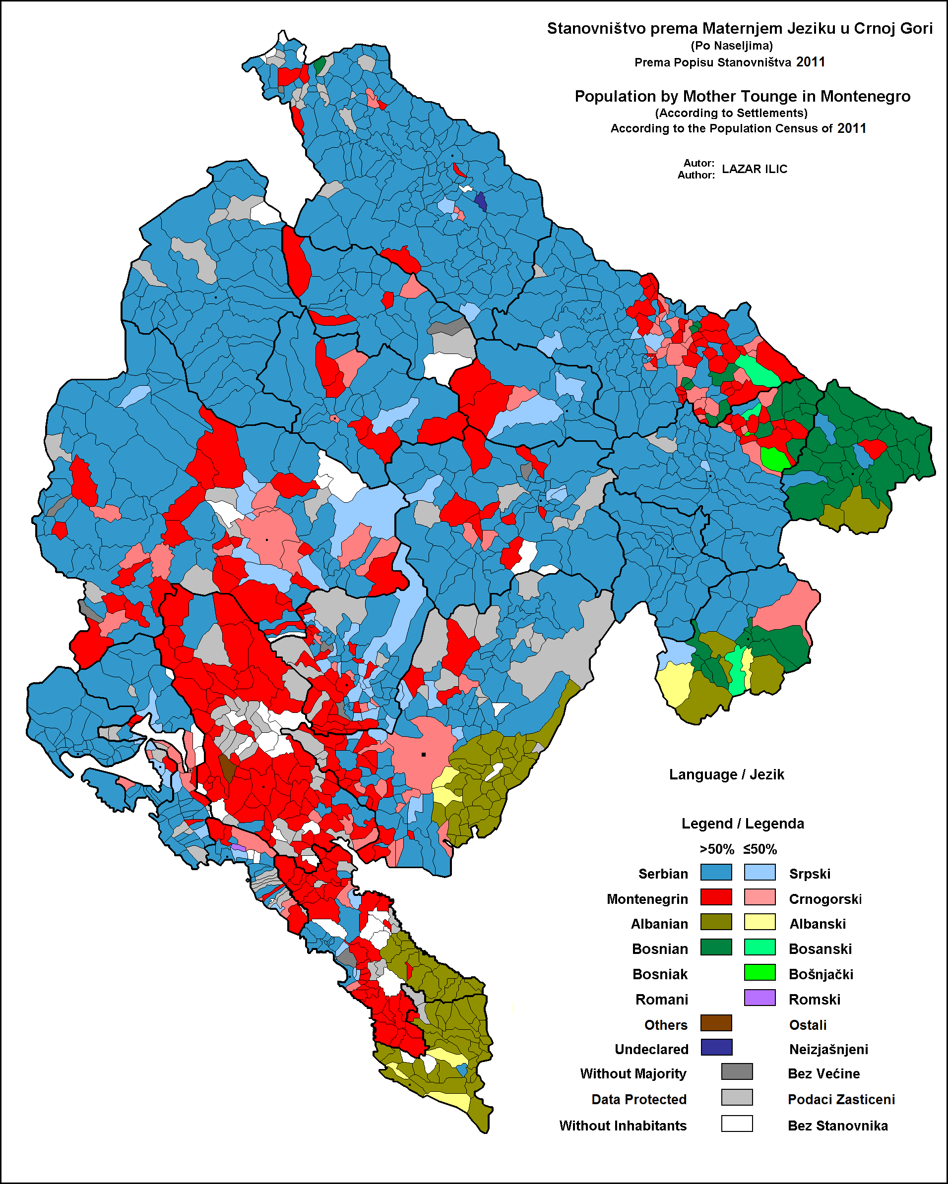 This is a linguistic map of Montenegro according to the 2011 population census. Data is according to settlements.